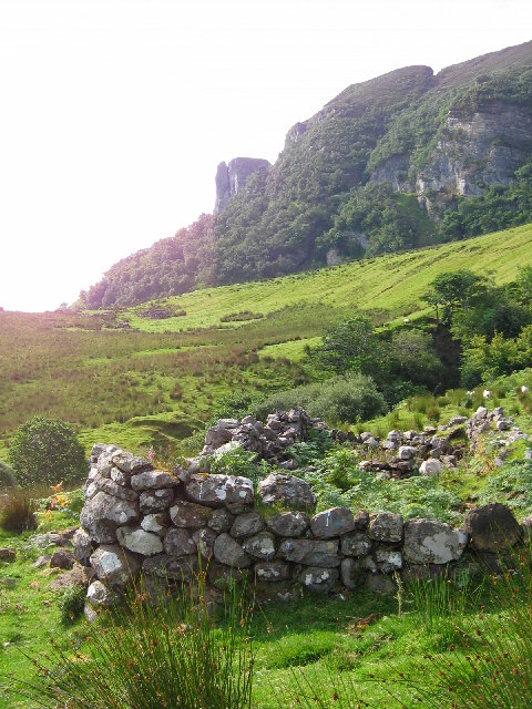 South Screapadal, Raasay The cleared township of Screapadal on the east coast of Raasay. Sorley MacLean, poet, wrote: "Screapadal in the morning facing Applecross and the sun, Screapadal that is so beautiful, quite as beautiful as Hallaig..."